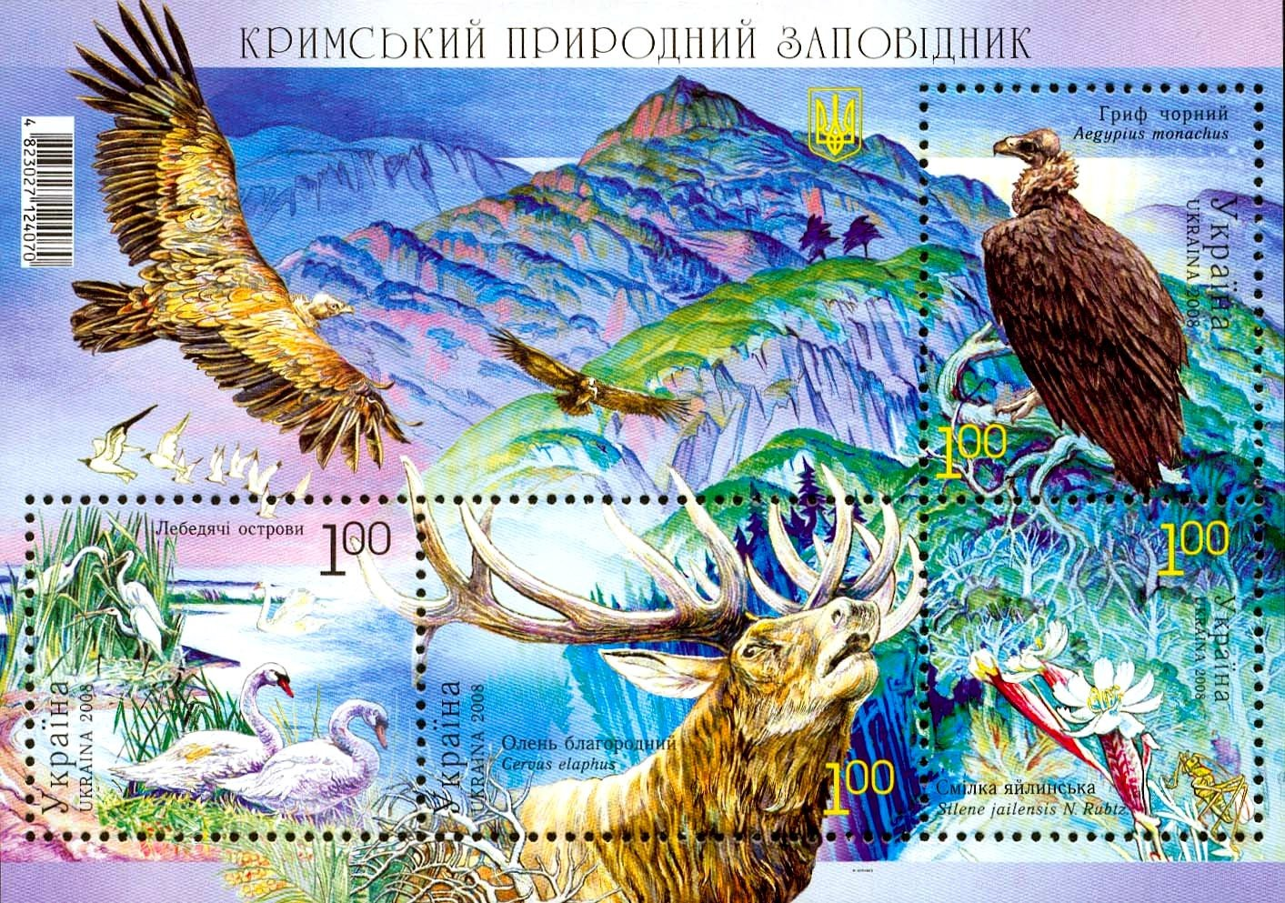 Post miniature sheet, Ukraine 2008. Fauna of the Crimean nature reserve. The animals that are pictured are (from top to bottom, from left to right: Cinereous Vulture (Aegypius monachus), swans (surprisingly this stamp is the only one that does not include the Latin scientific name of the species!), a red deer (Cervus elaphus) and Selene jailensis plant (flower was described by N. I. Rubtsov).